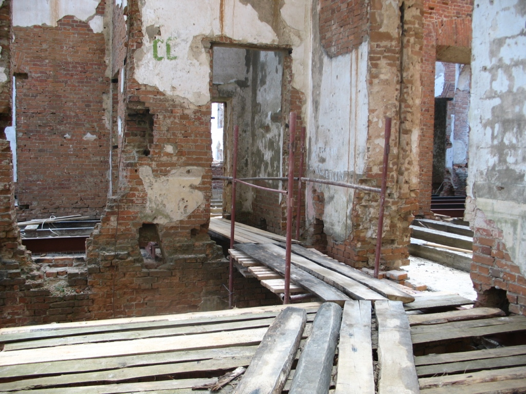 Kosava Castle, Belarus. Restauration